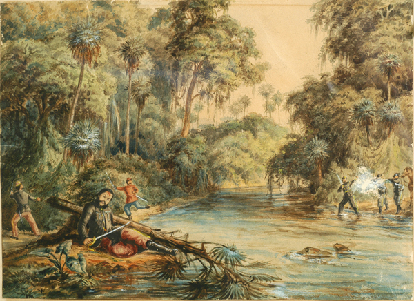 Death of Francisco Solano López in River Aquidabán, Battle of Cerro Corá